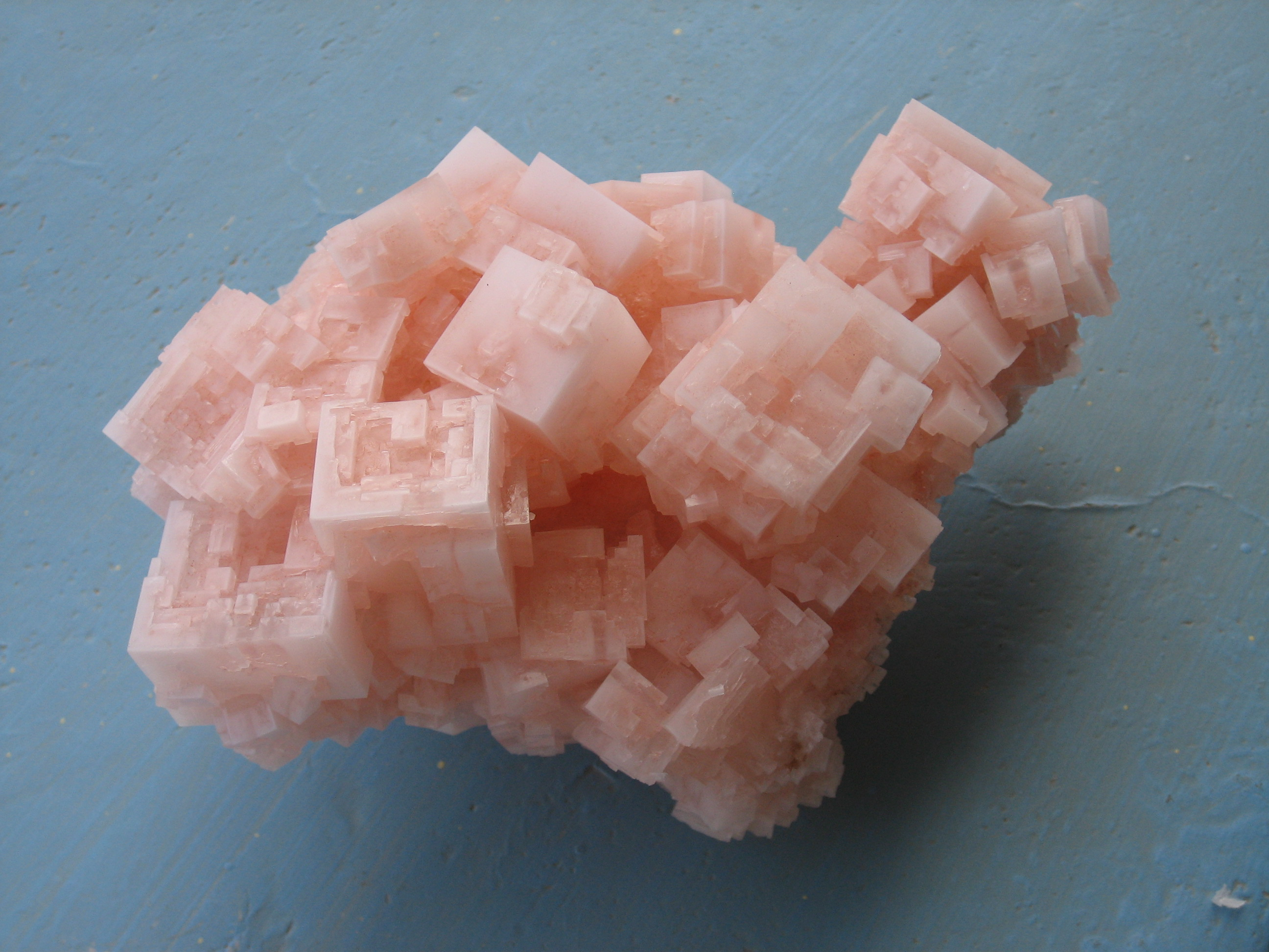 Salt crystal from the saline of Pedra Lume, Cape Verde